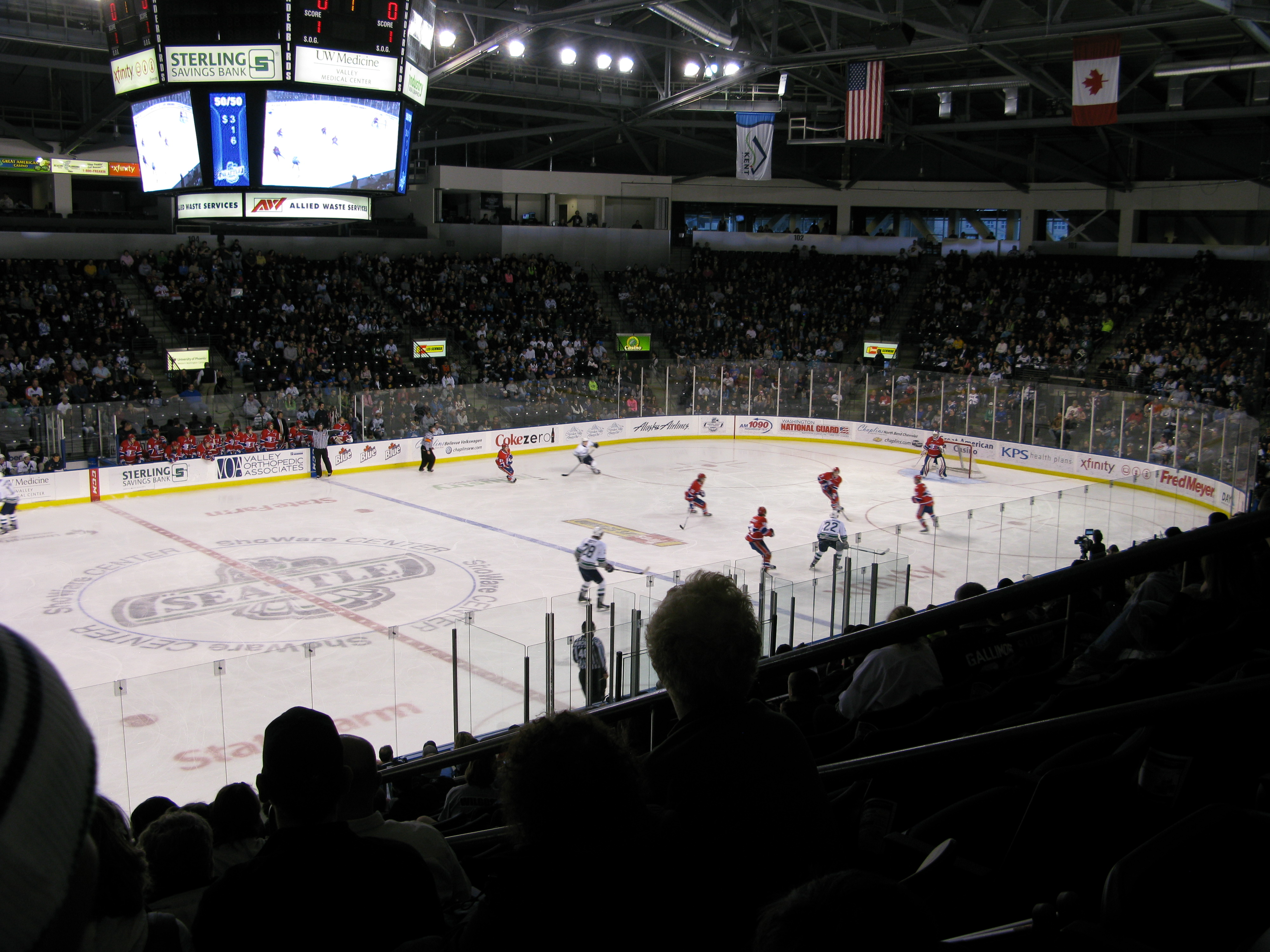 Thunderbirds vs. Chiefs hockey game at ShoWare Center in Kent, WA